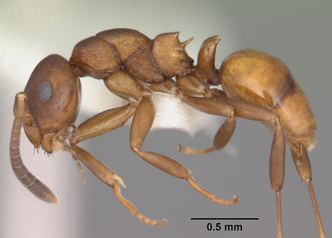 Profile view of ant Stigmacros punctatissima specimen psw8215-2.